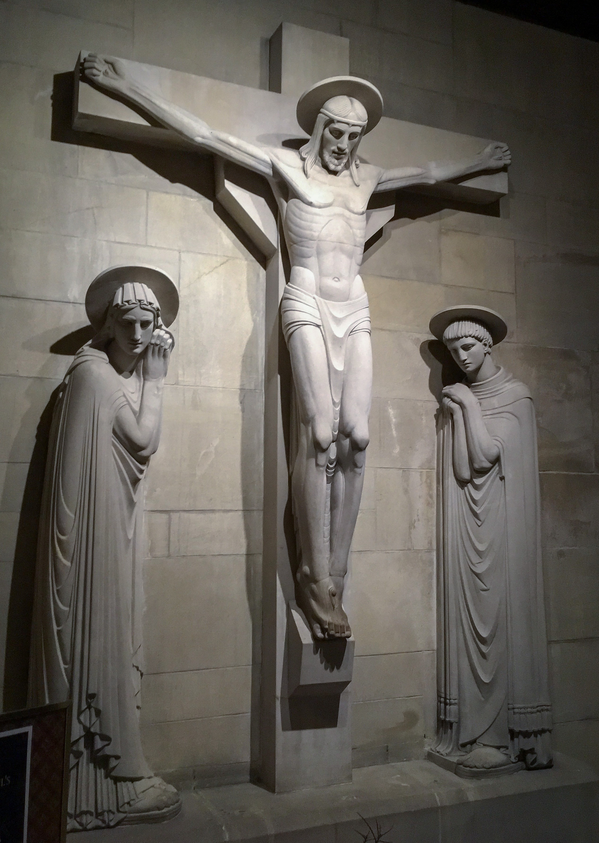 Crucifixion by Alfred Frank Hardiman (1926) at the head of the calvary stair in Old St Paul’s church, Edinburgh